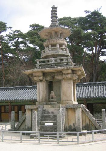 Stone pagoda Dabotap, located in Bulguksa Temple, Gyeongju, South Korea.